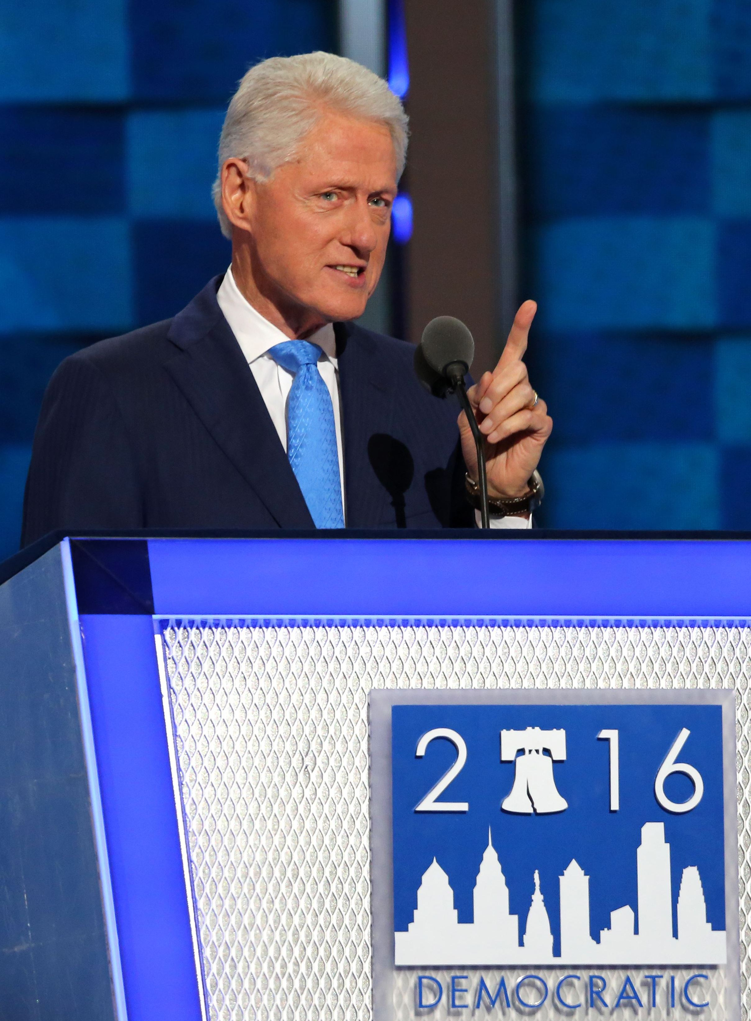 President Bill Clinton brought delegates to their feet with an impassioned appeal on behalf of his wife on the second night of the Democratic National Convention in Philadelphia (A. Shaker/VOA)